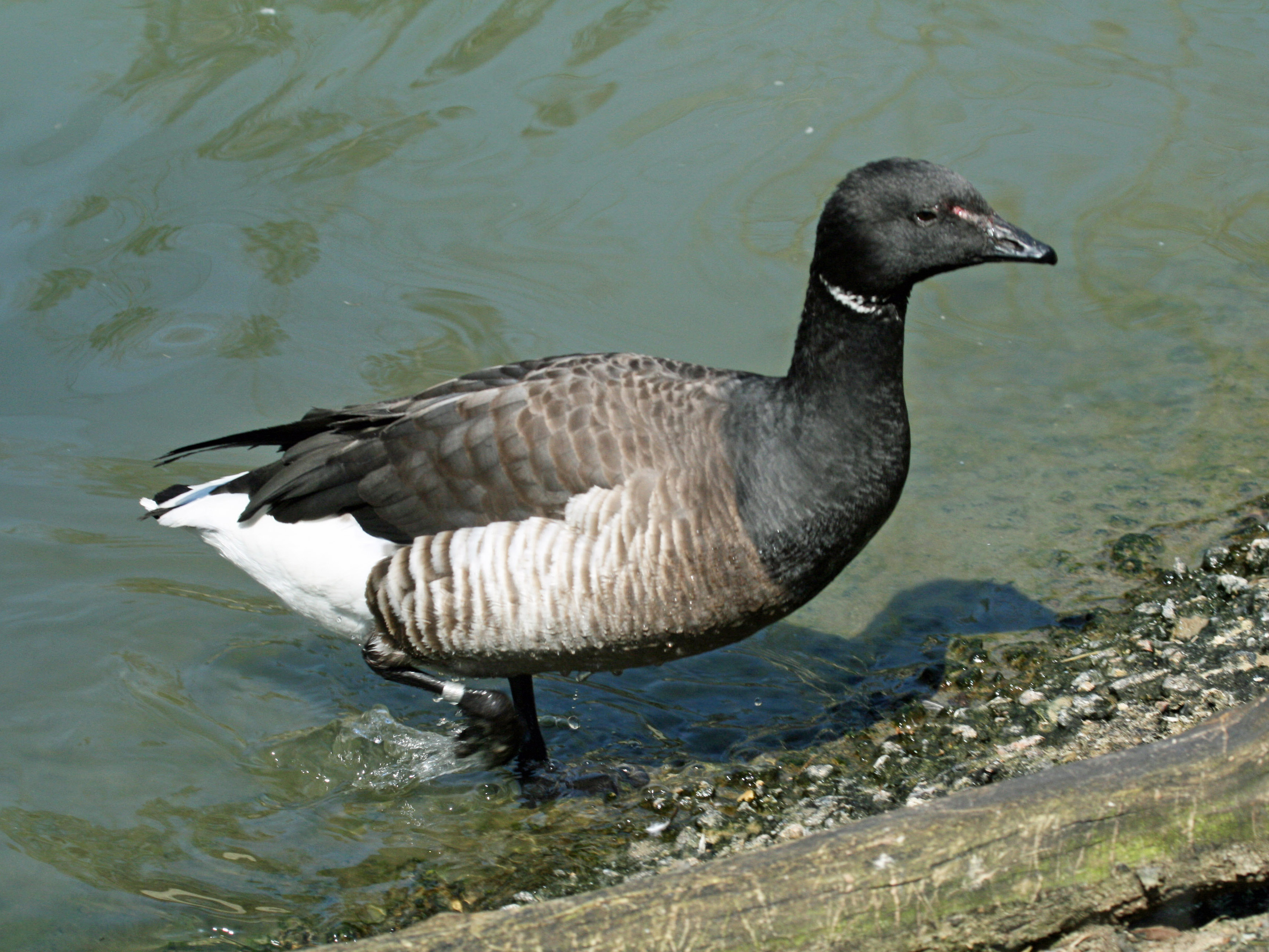 Brant (Branta bernicla) at Sylvan Heights Waterfowl Park in Scotland Neck, North Carolina.